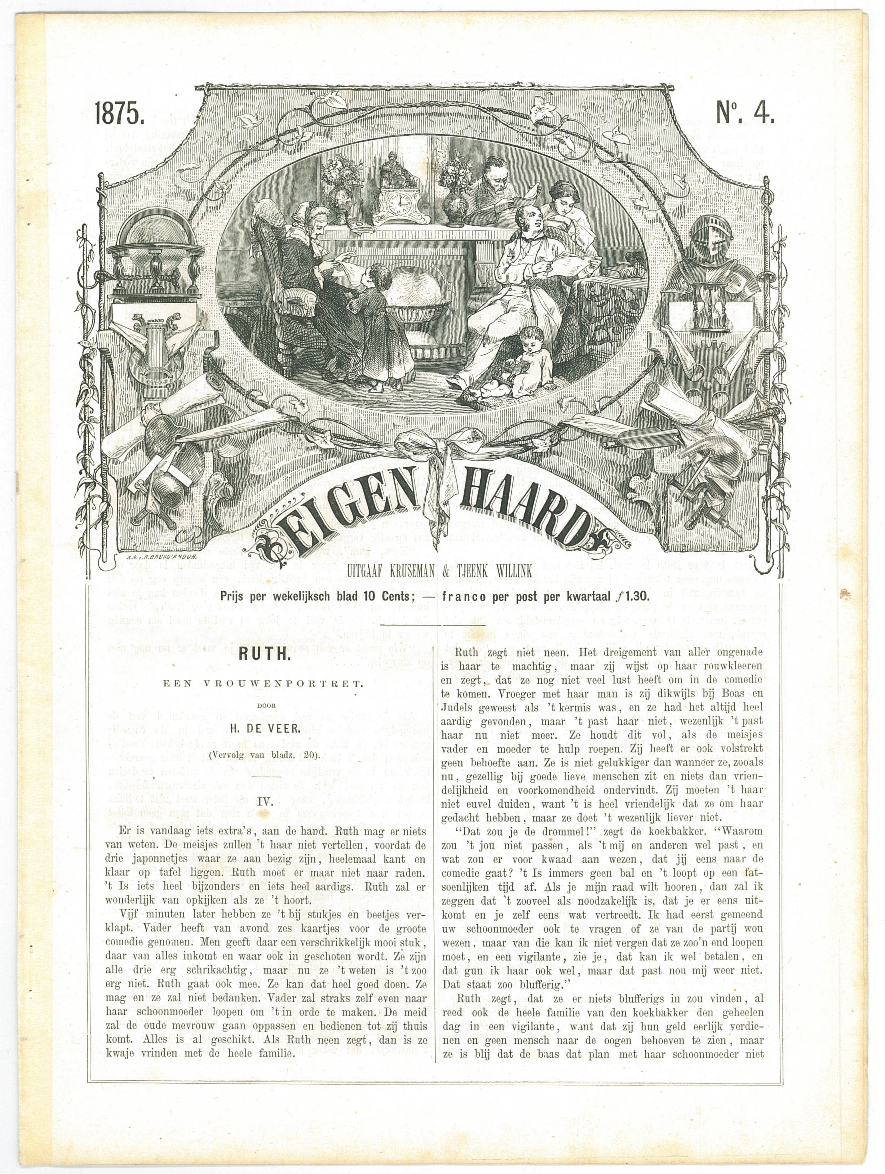 Scan of Dutch magazine Eigen Haard.